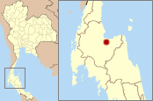 Locator map for Surat Thani (city), Thailand